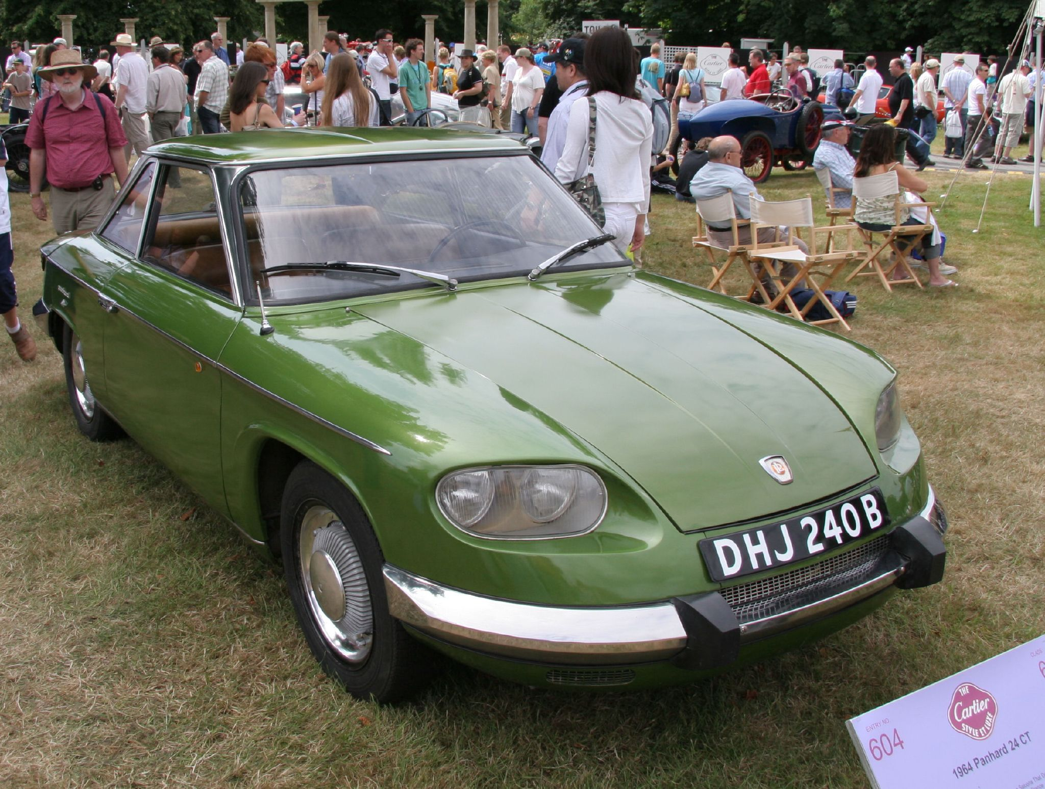 1964 Panhard 24 CT at the 2006 Goodwood Festival of Speed